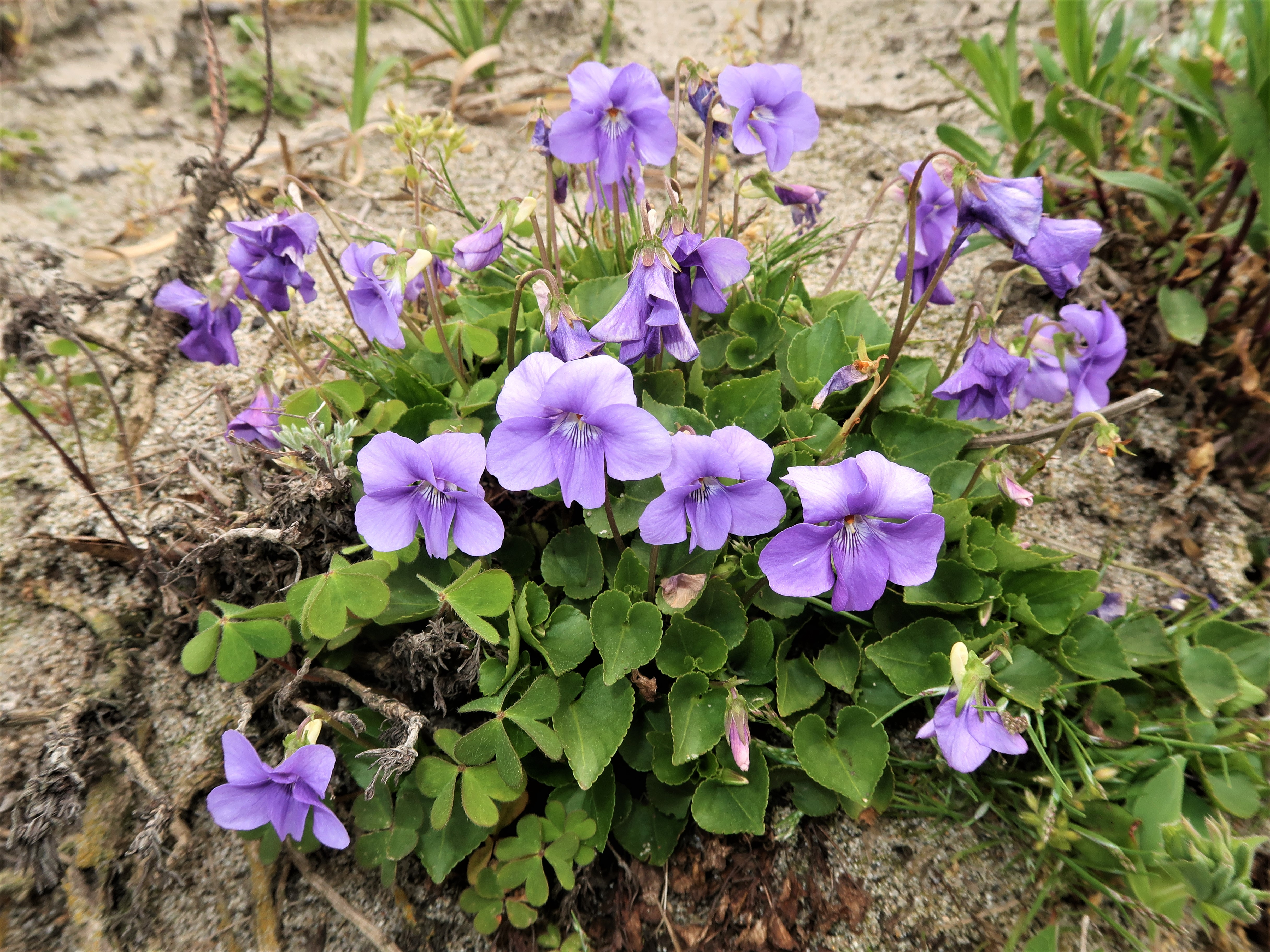 Viola grayi, Murakami city, Niigata pref., Japan